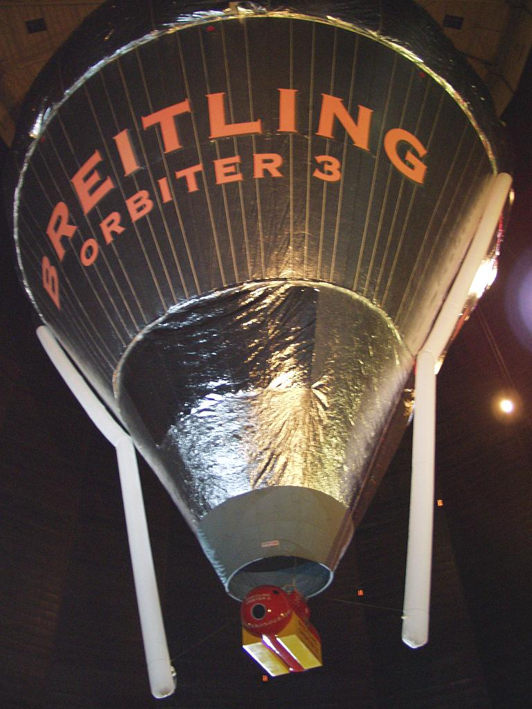 Balloon "Breitling Orbiter 3" of Bertrand Piccard, shown in the Gasometer Oberhausen